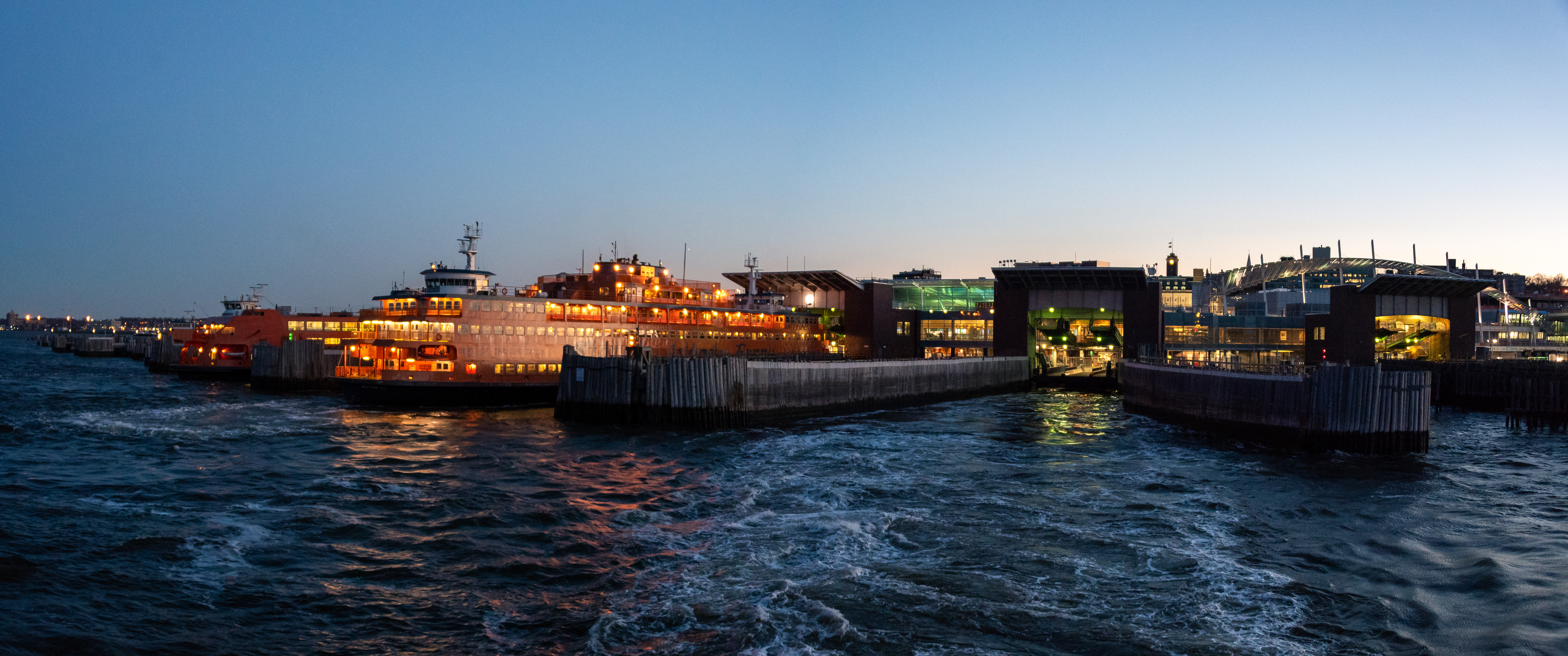 Panorama of Staten Island Ferry Terminal, departing from St. George at sunset. Photo by Eric Kilby